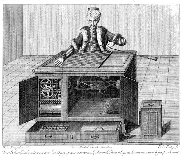 Wolfgang von Kempelen – The Turkish Chess Player